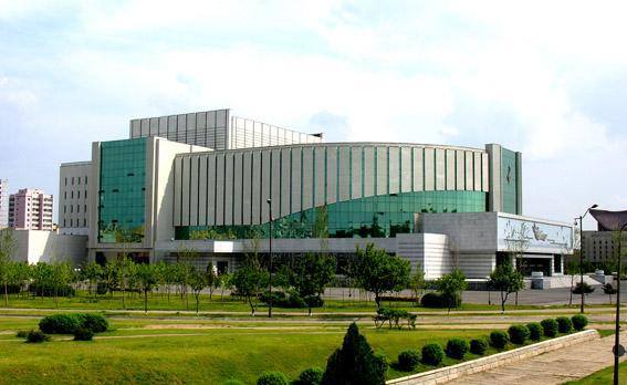 East Pyongyang Grand Theater seen from the side